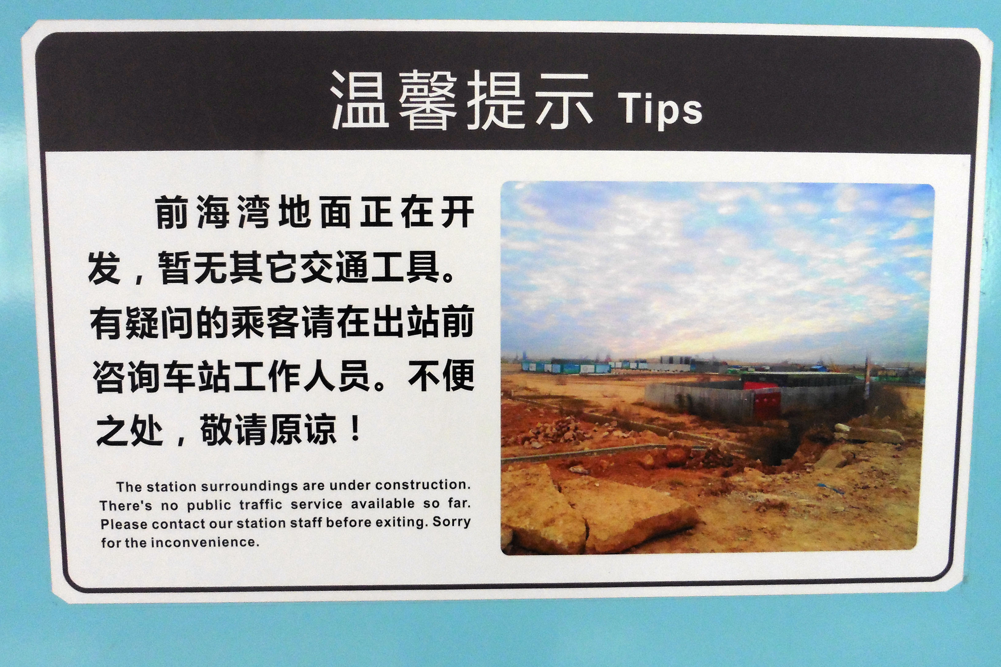 This station is only opened as an exchange between 2 lines, the only available station exit at ground level leads to the centre of huge construction site.